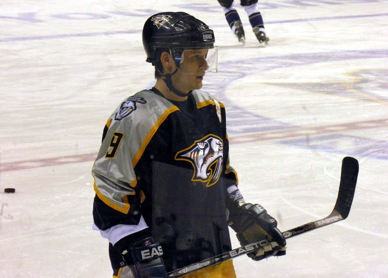 Paul Kariya, ice hockey player of the Nashville Predators